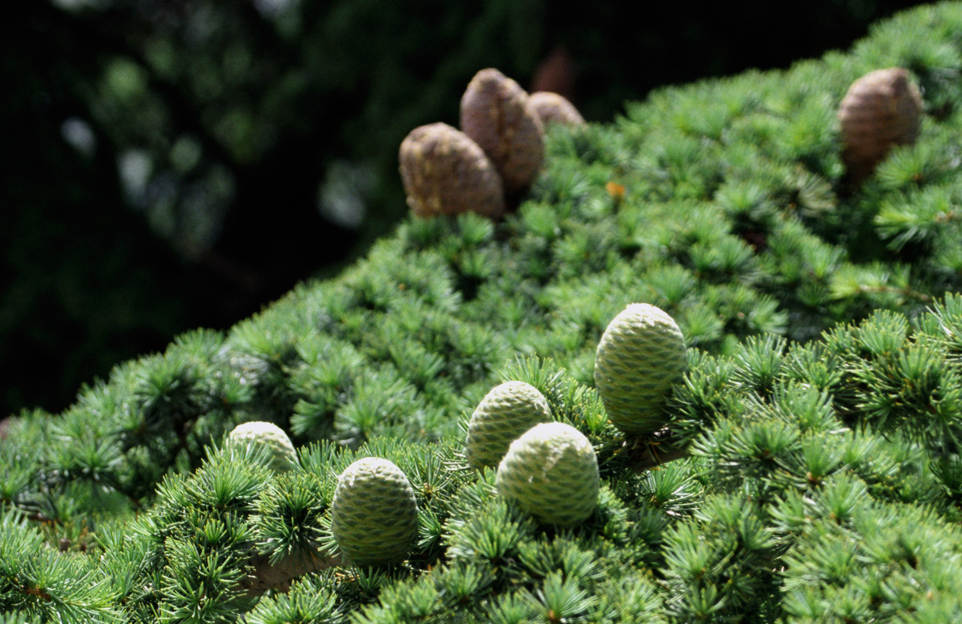 Cedrus libani var. libani — Lebanon Cedar; cones. In the Cedars of God nature preserve on Mount Lebanon, Lebanon.